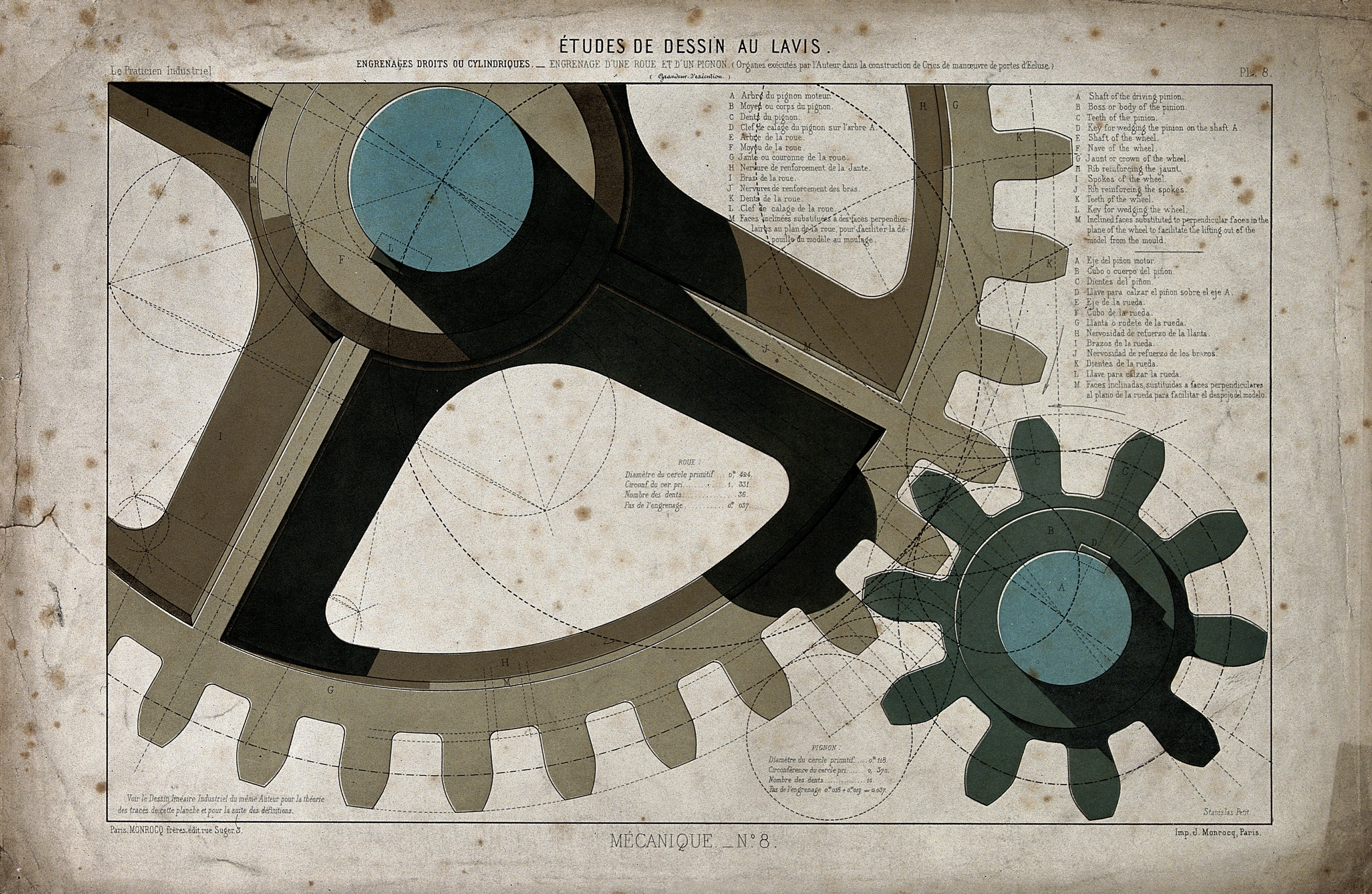 Engineering: large cogs meshing together, and diagrams of epicycloid curves. Coloured lithograph by Stanislas petit, n.d. [c.1905?]. Iconographic Collections Keywords: COGS; Engineering; clocks